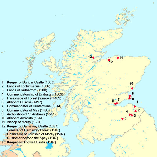 Benefices held by Archbishop Andrew Forman of St Andrews